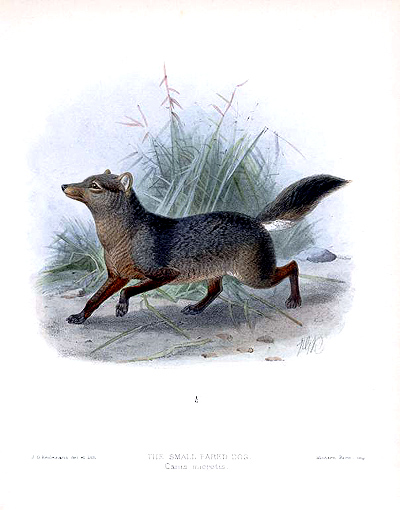 An illustration of a short eared dog